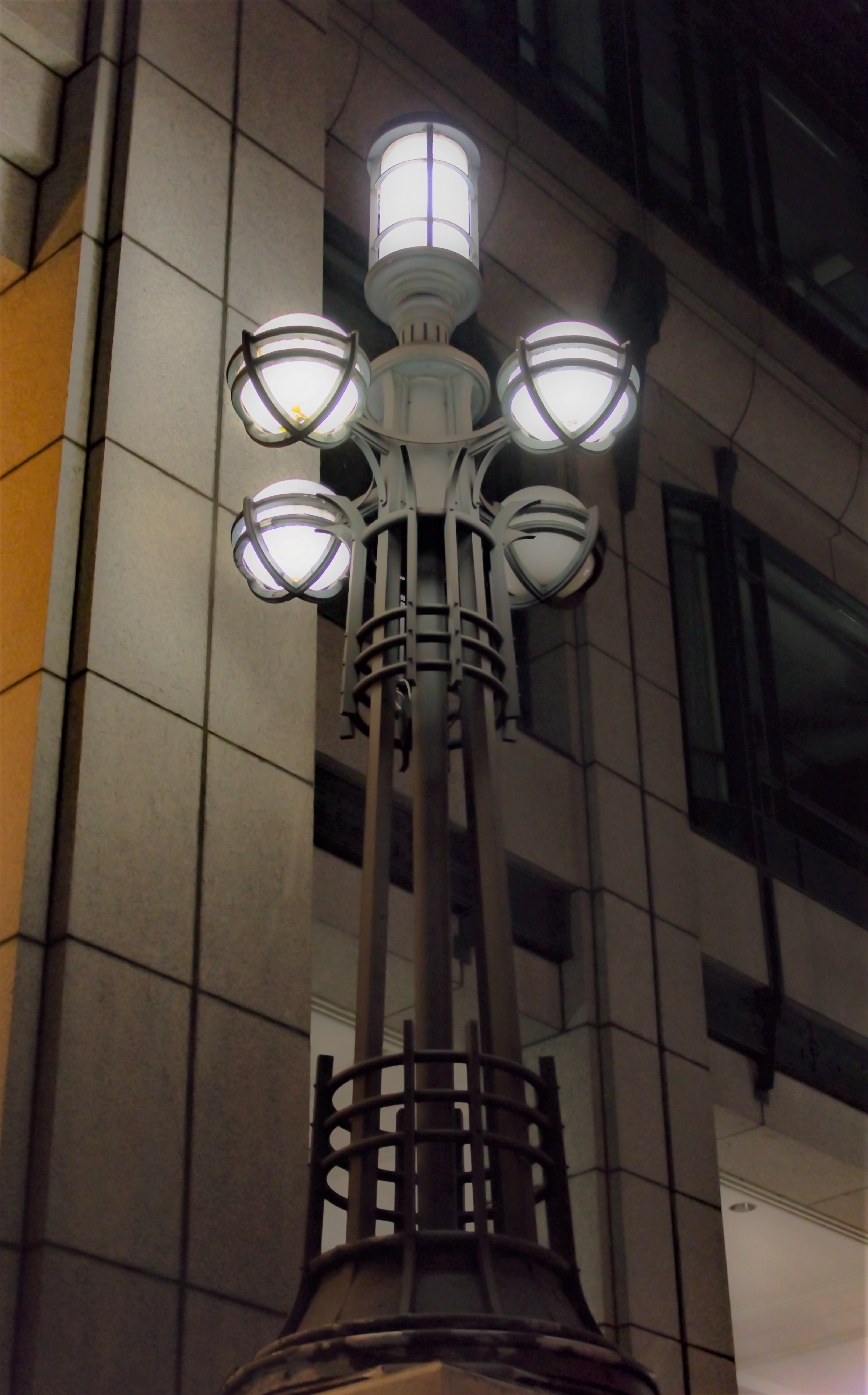 Lamp post in Londun